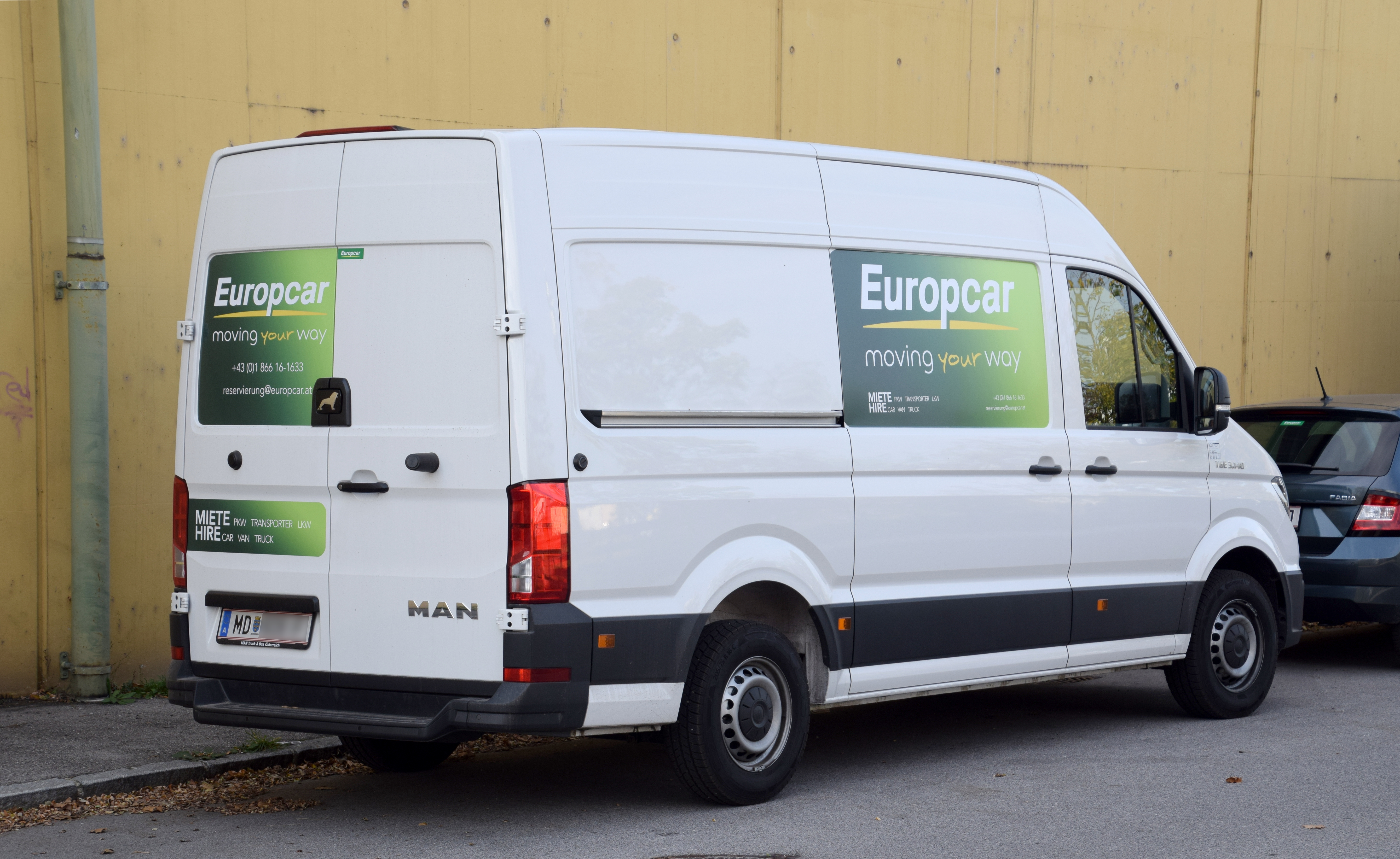 Europcar rental MAN TGE 3.140 in white (configuration: standard wheel base, standard length, high roof), view of the right rear three-quarter